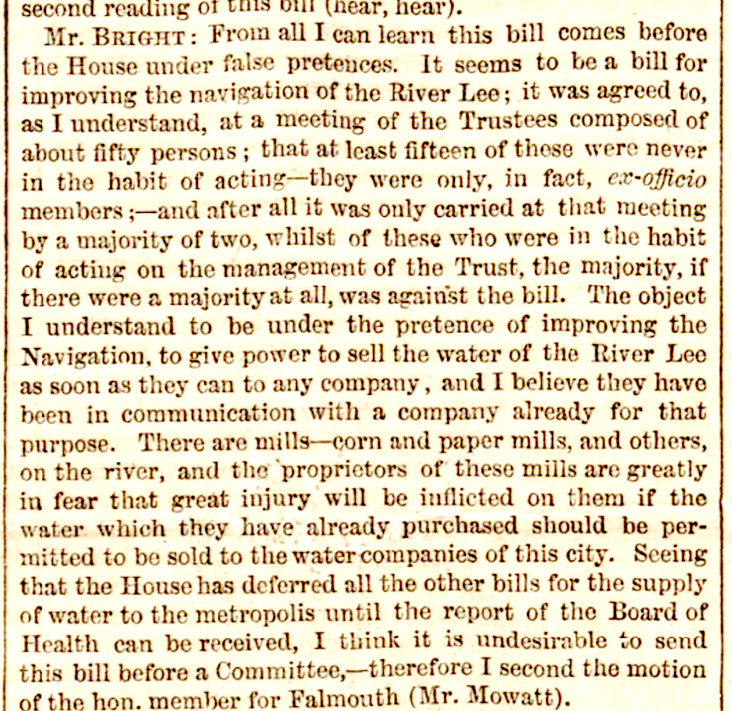 Radical politician John Bright suggests a canalisation proposal is a scam